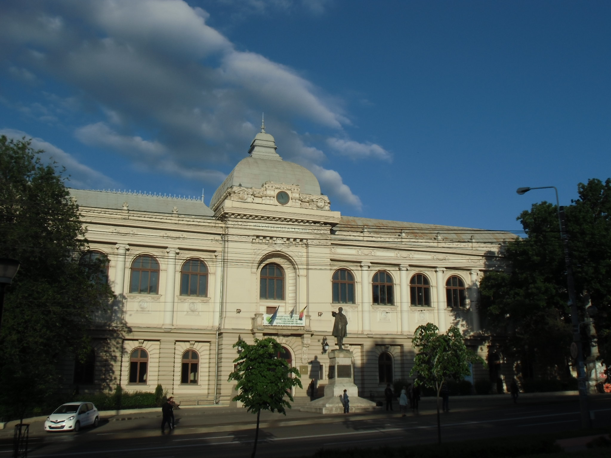 Gheorghe Asachi Technical University of Iasi, Romania, Building A